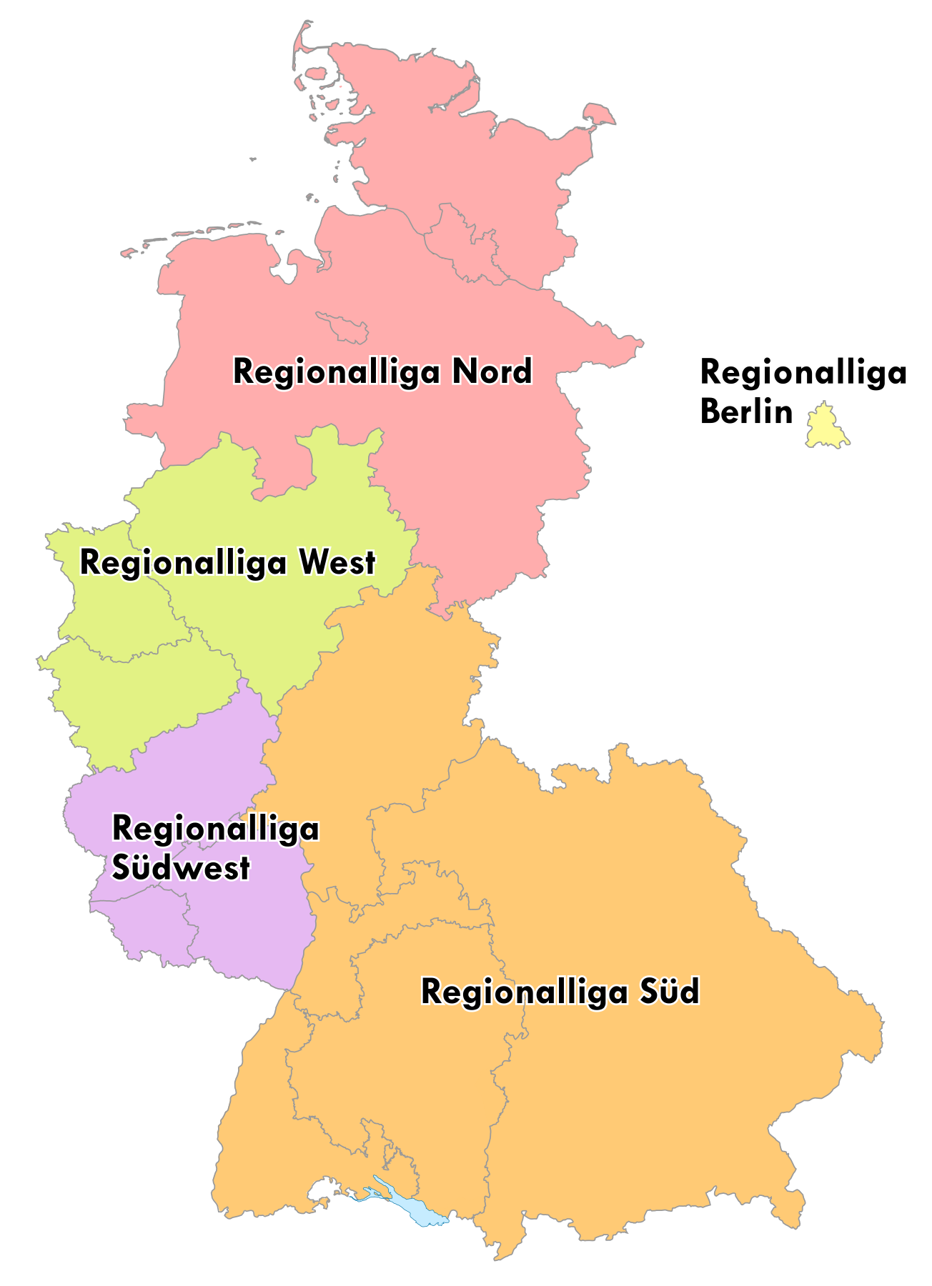 Map of German Soccer Regionalliga, 1963-1974, excluding Eastern Germany